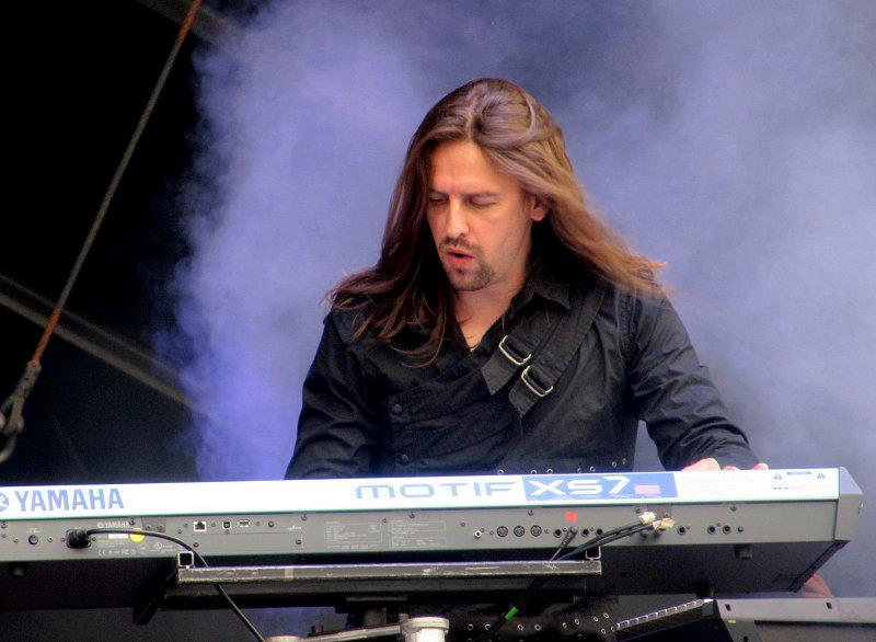 Oliver Palotai with Kamelot at Bang Your Head Festival 2012 in Balingen